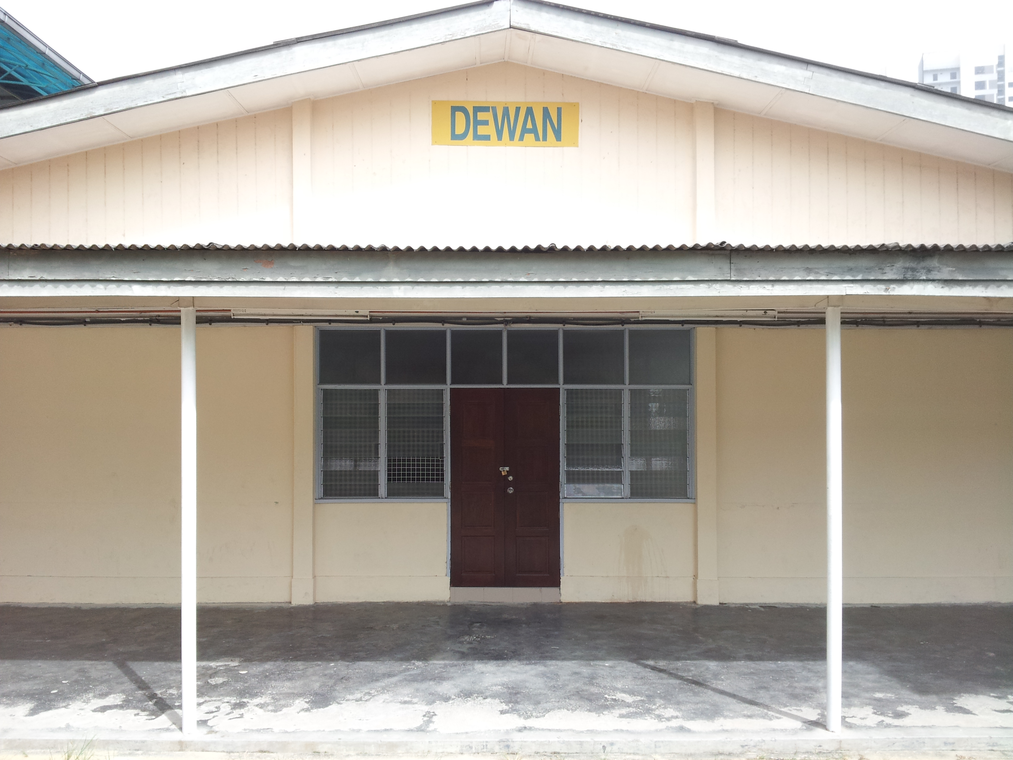 Dewan McGregor 2 - After 2013 renovations